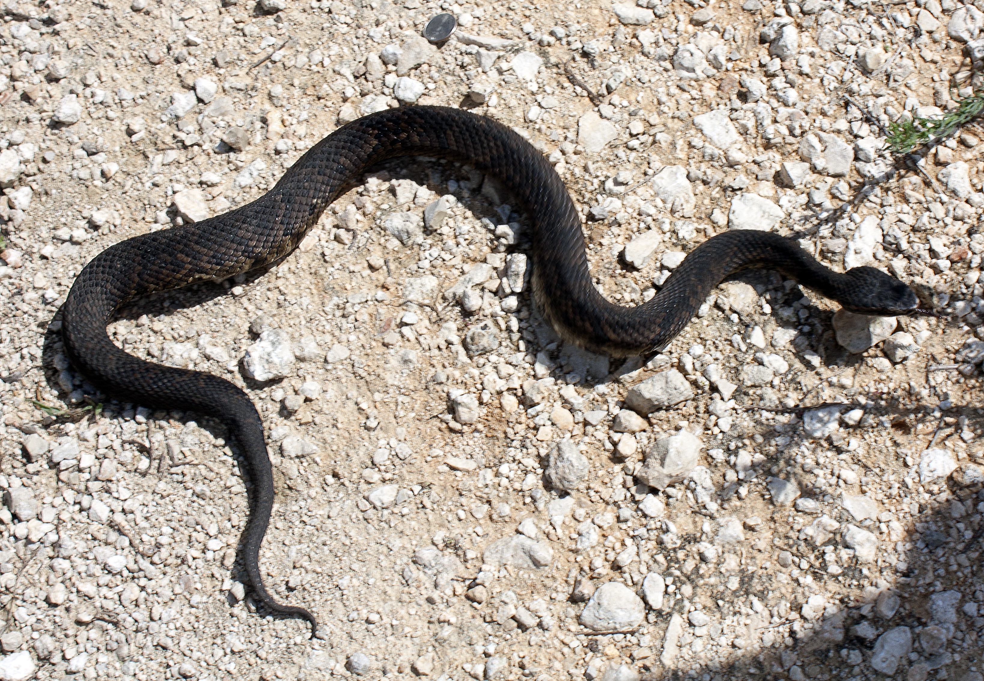 Water moccasin / cottonmouth